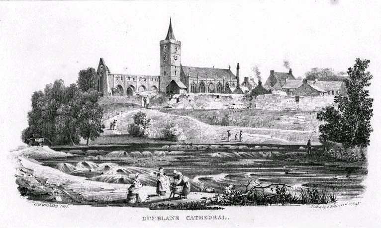 chalk lithographic printed sketch of Dunblane Cathedral